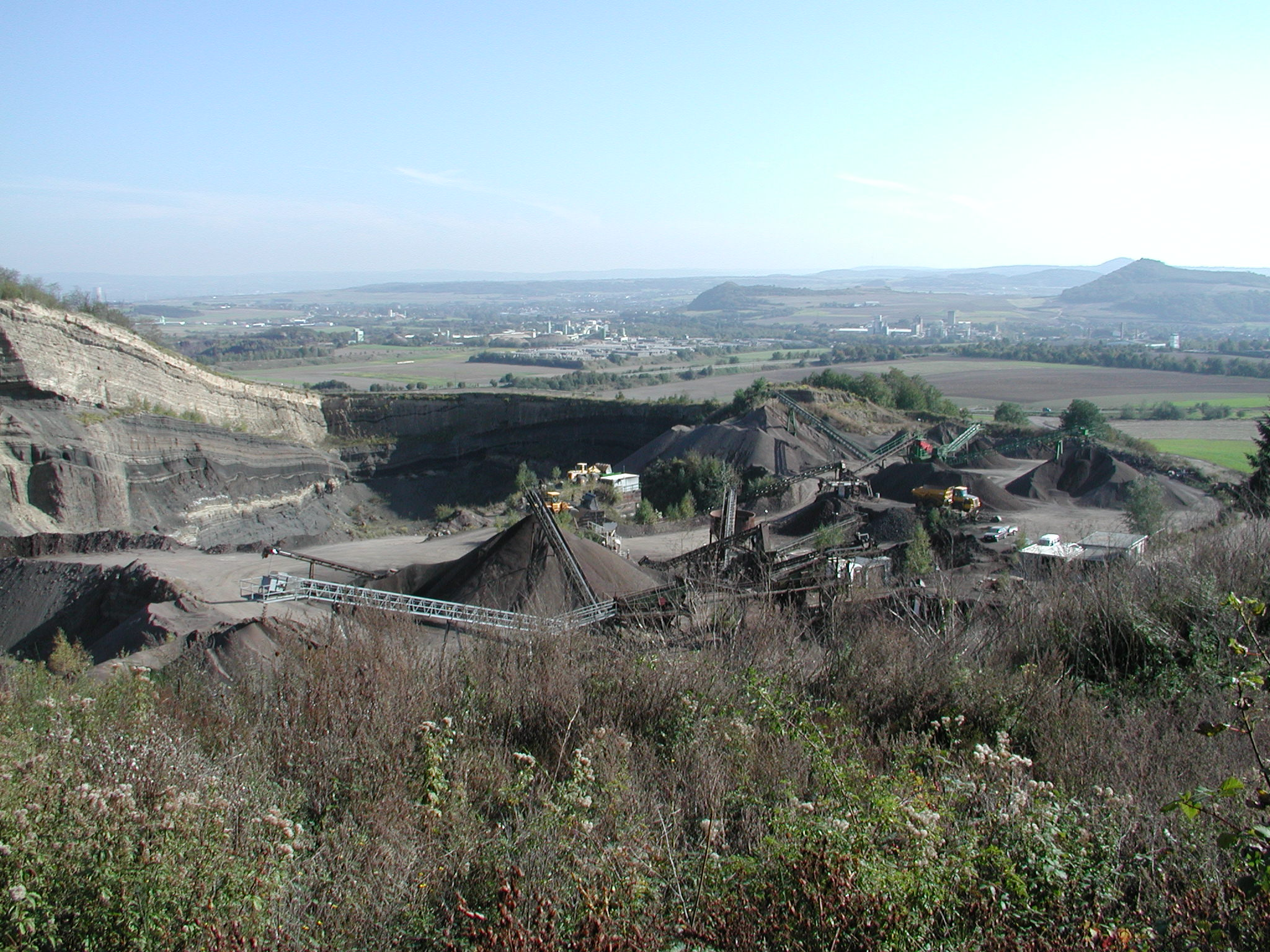 Eppelsberg